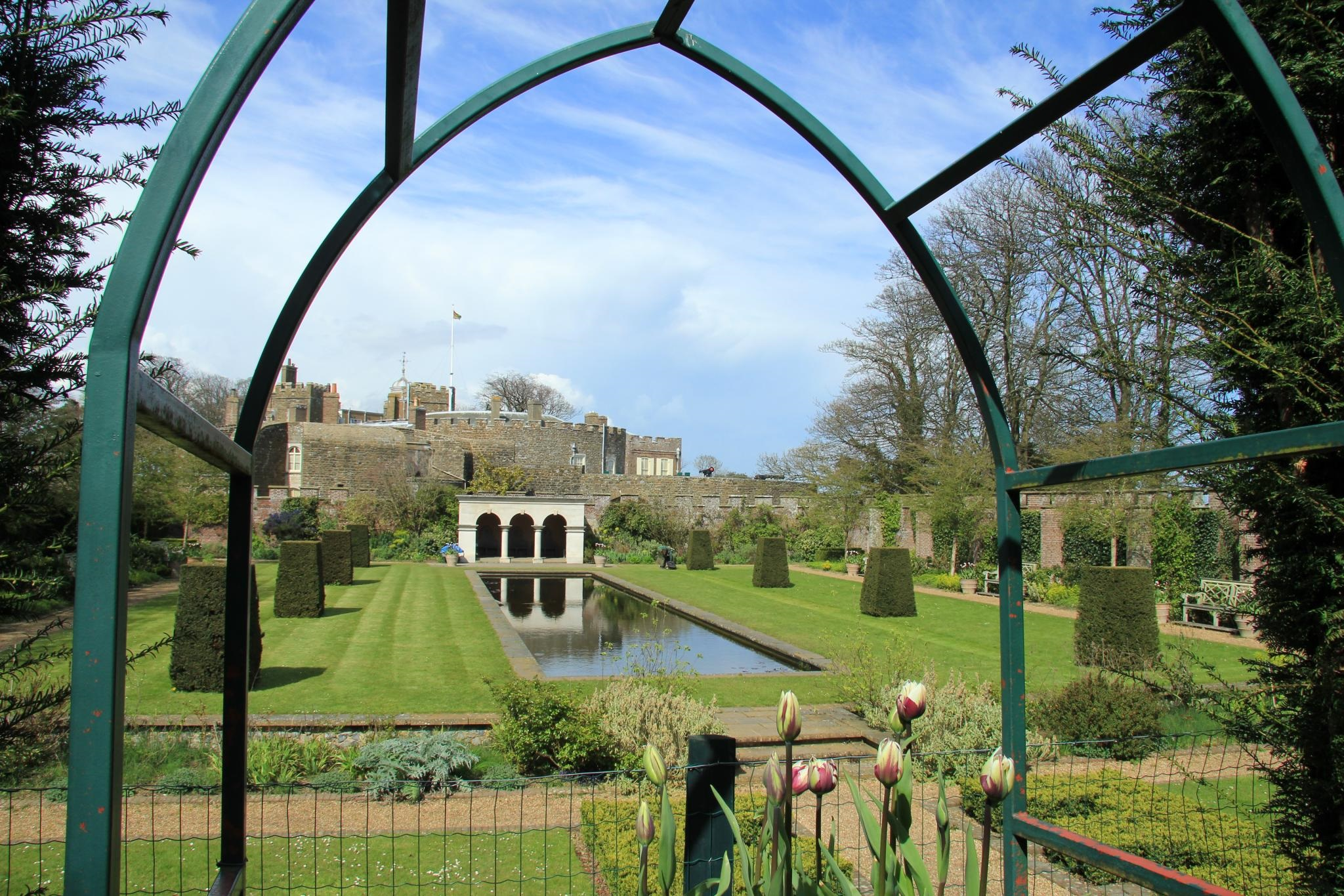 Queen Elizabeth the Queen Mother's garden, Walmer Castle